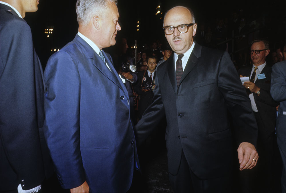 Mayor Jean Drapeau (right) at Expo67 site. Premier Jean Lesage on the left. Archives title: Nuit des îles "Handing over site".